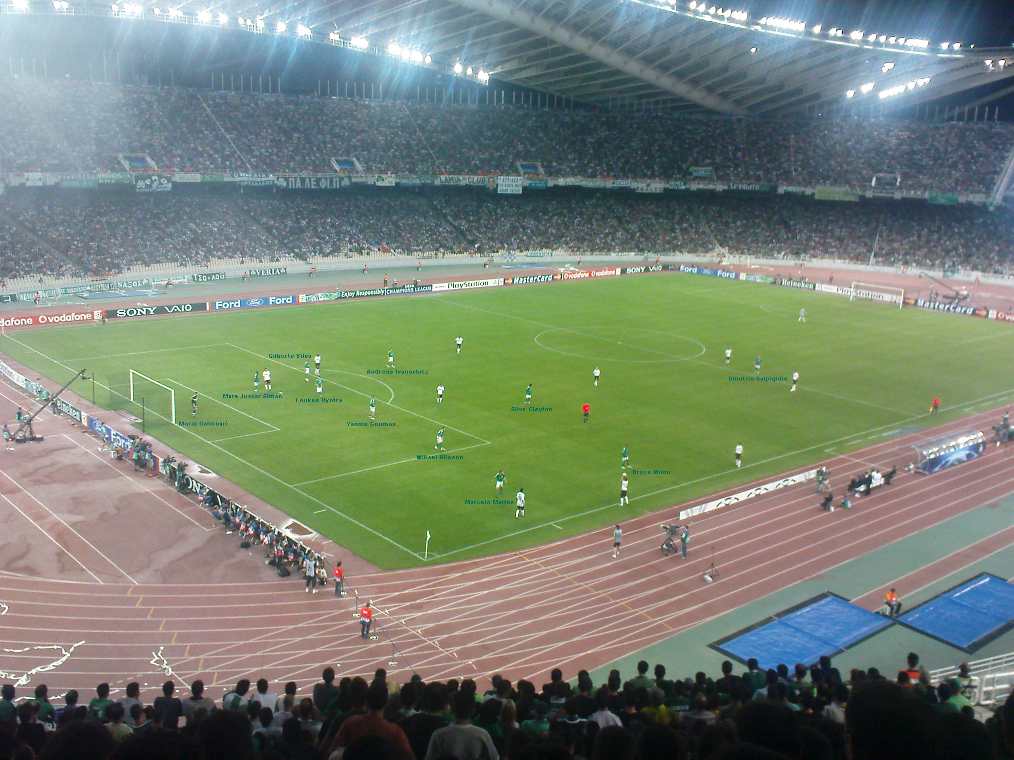 Panathinaikos vs Inter Champions League 2008-2009